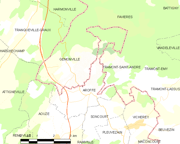 Map of French municipality Aroffe